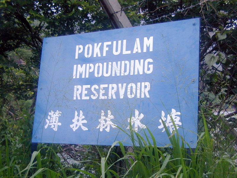 Photo of Pok Fu Lam Reservoir